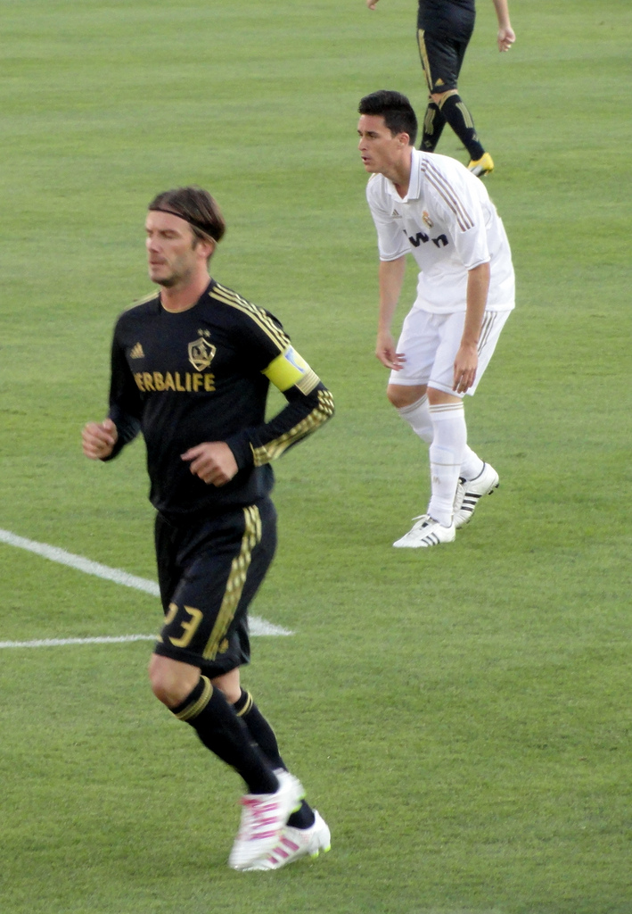 David Beckham during friendly match Real Madrid-Los Angeles Galaxy